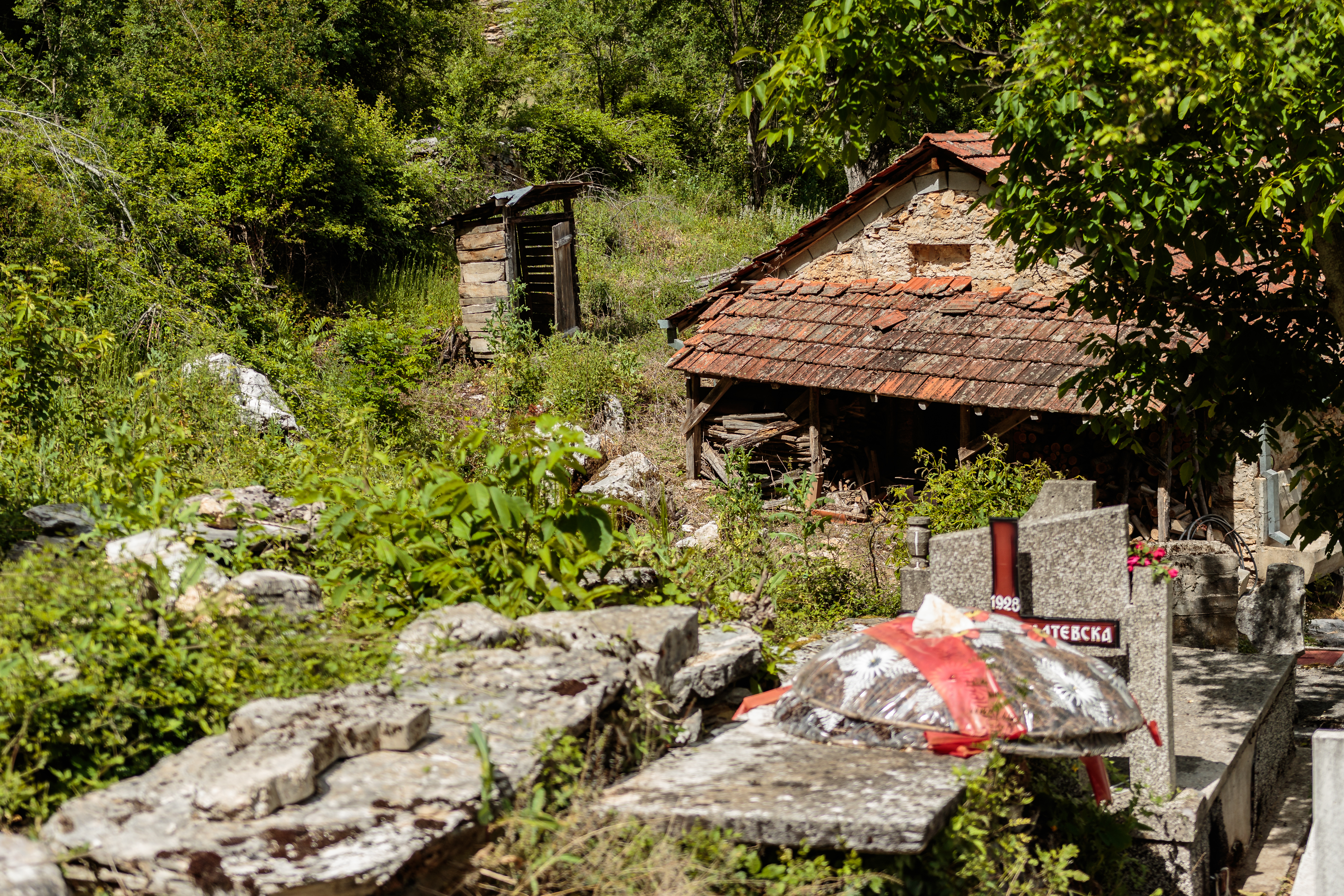 View of the St. Nicholas Church in the village Babino